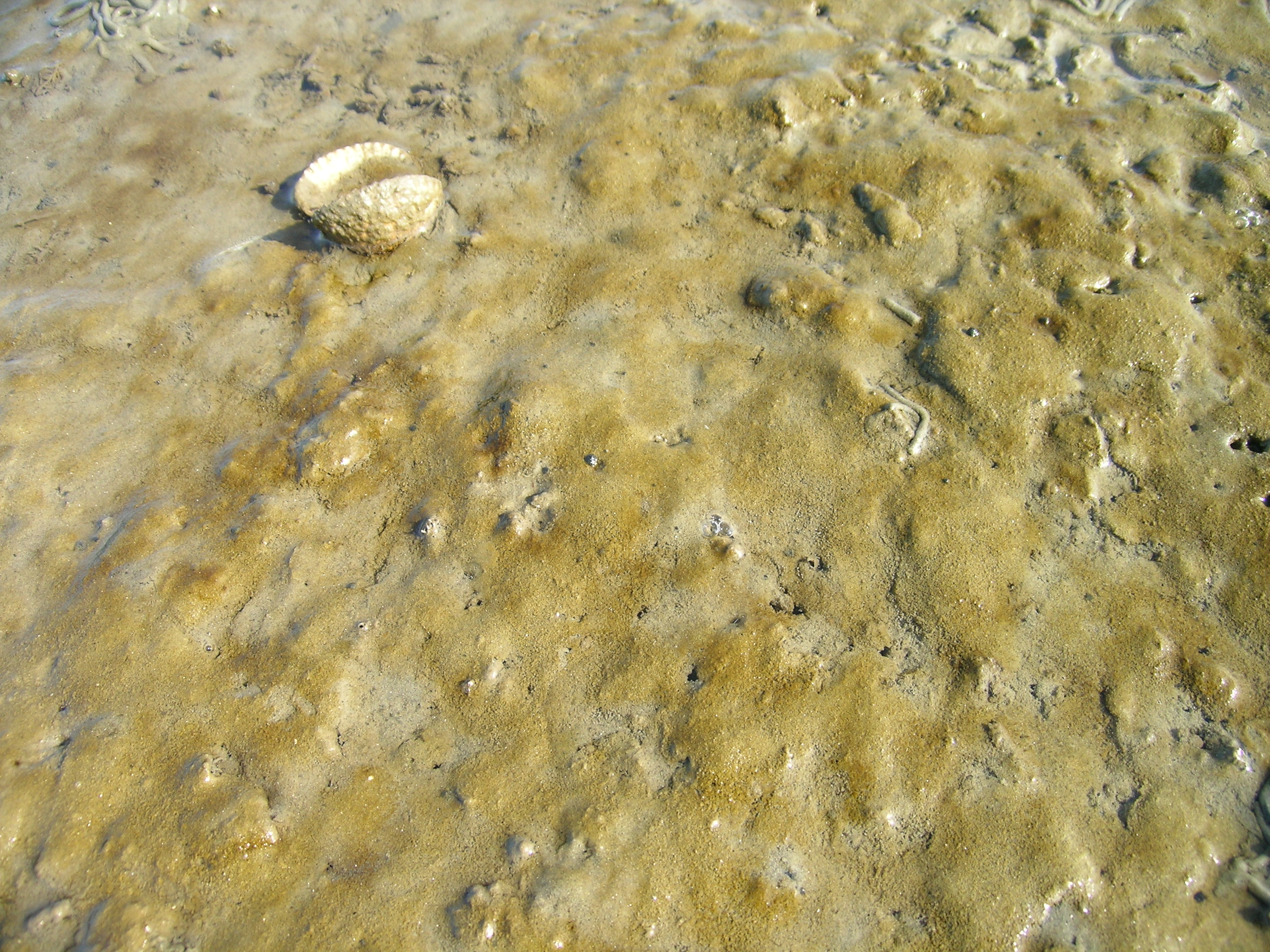 diatoms growing on a silky underground